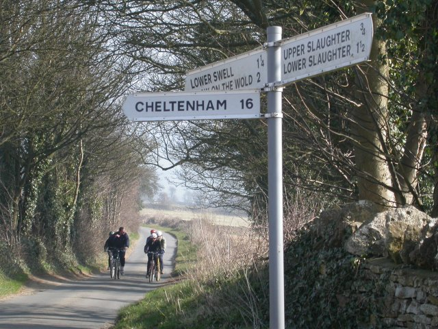 near Stow-on-the-Wold. By junction on rural road right at the bottom of the square, looking back towards Lower Swell and Stow.